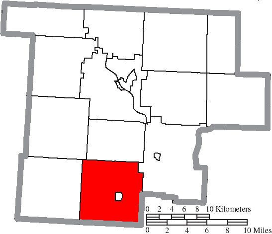 Map of the municipal and township boundaries of Morgan County, Ohio, United States, as of the 2000 census, with the location of Marion Township highlighted. Township borders are shown only in unincorporated areas in order to differentiate incorporated and unincorporated areas more clearly.